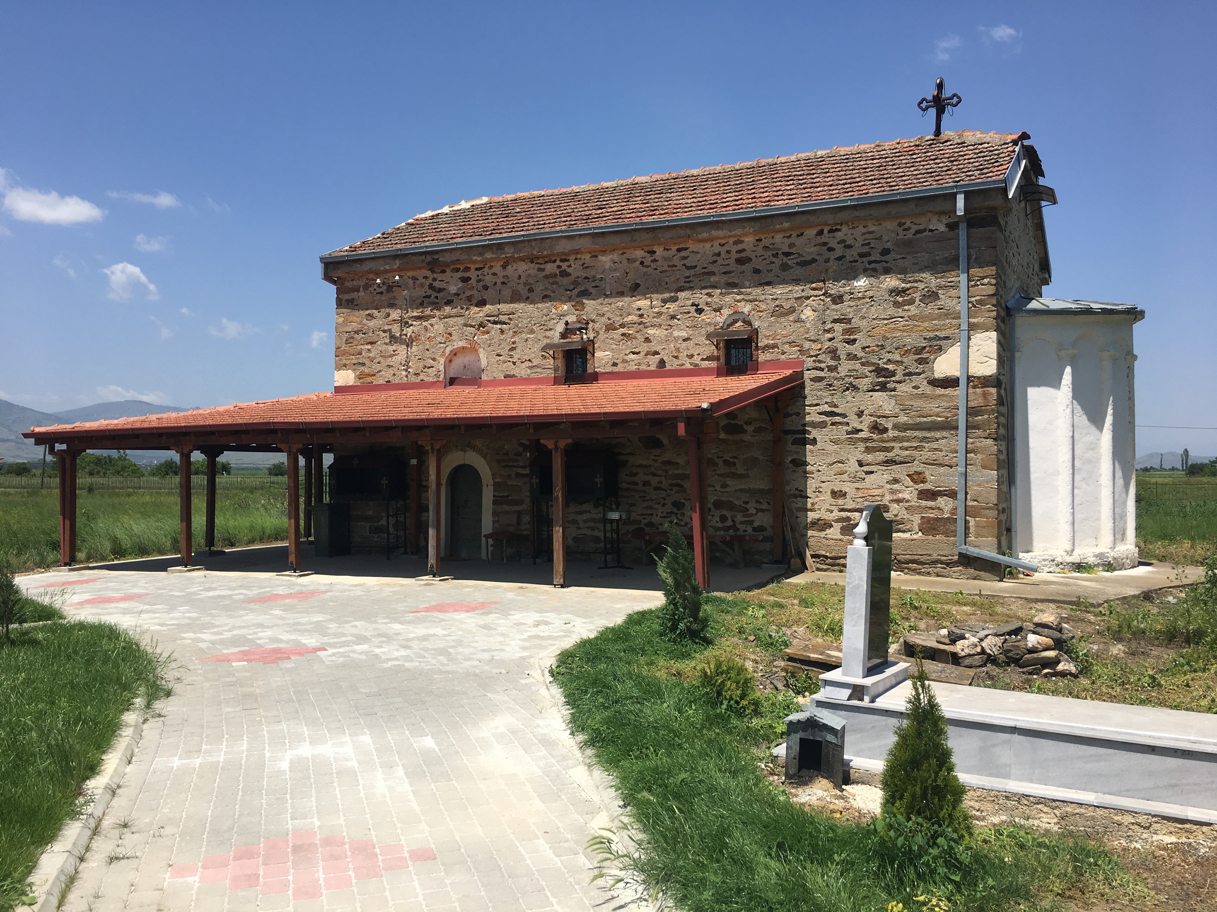 St. Demetrius Church in the vilalge of Dolna Čarlija